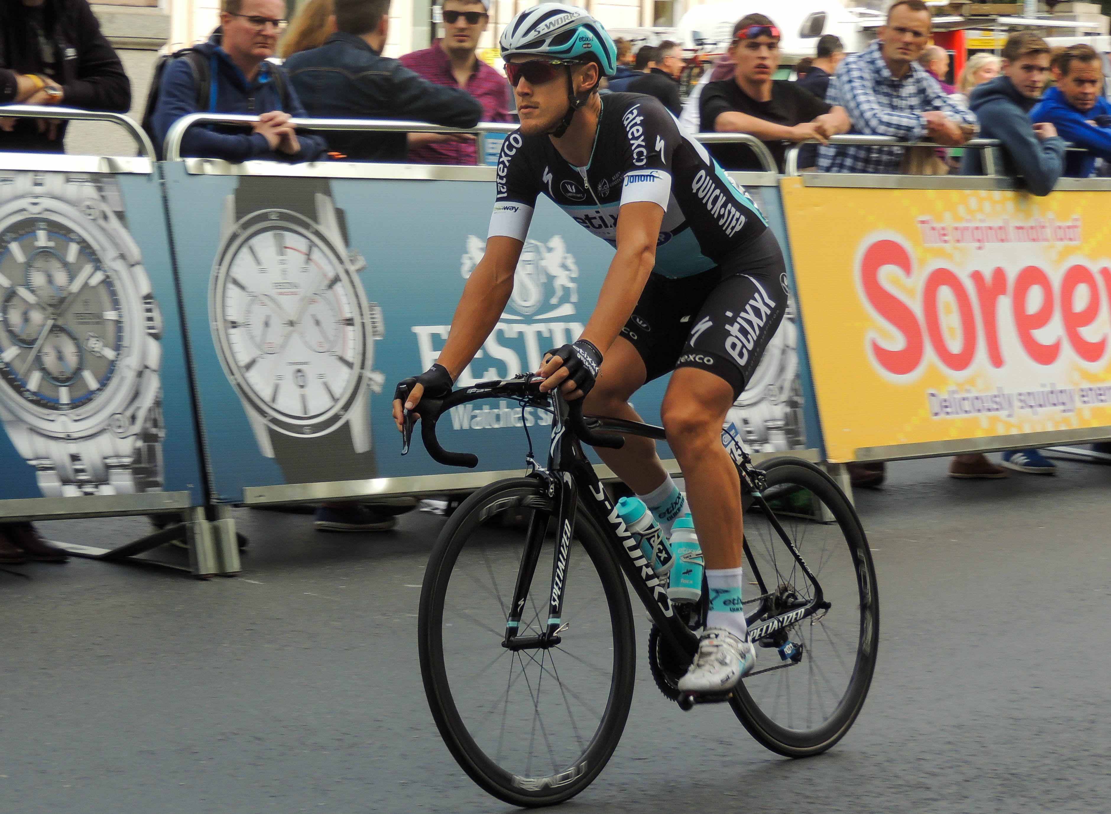 Tour of Britain Stage 8